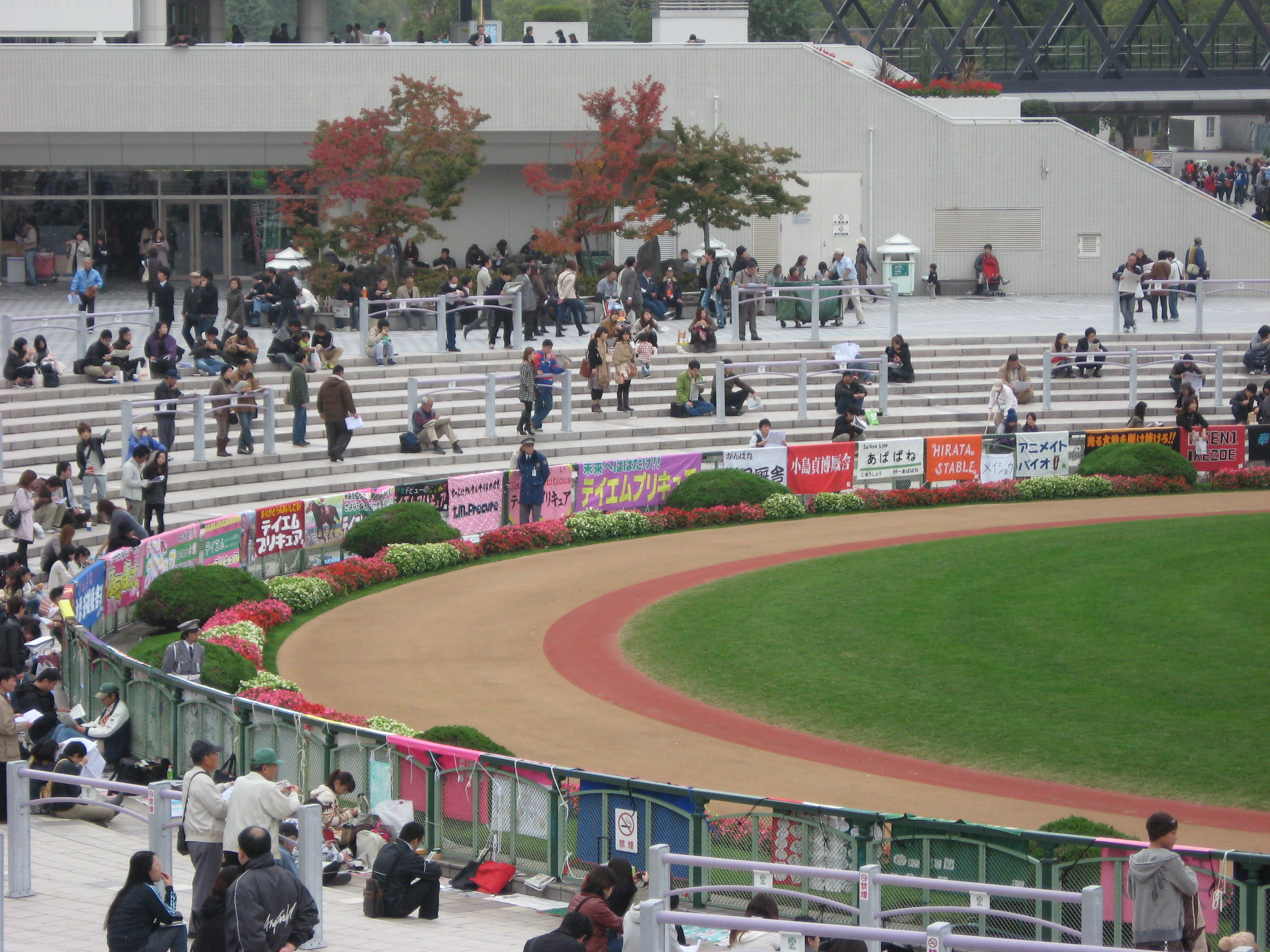 Banners of T M Precure in the 35th Queen Elizabeth II commemorative cup